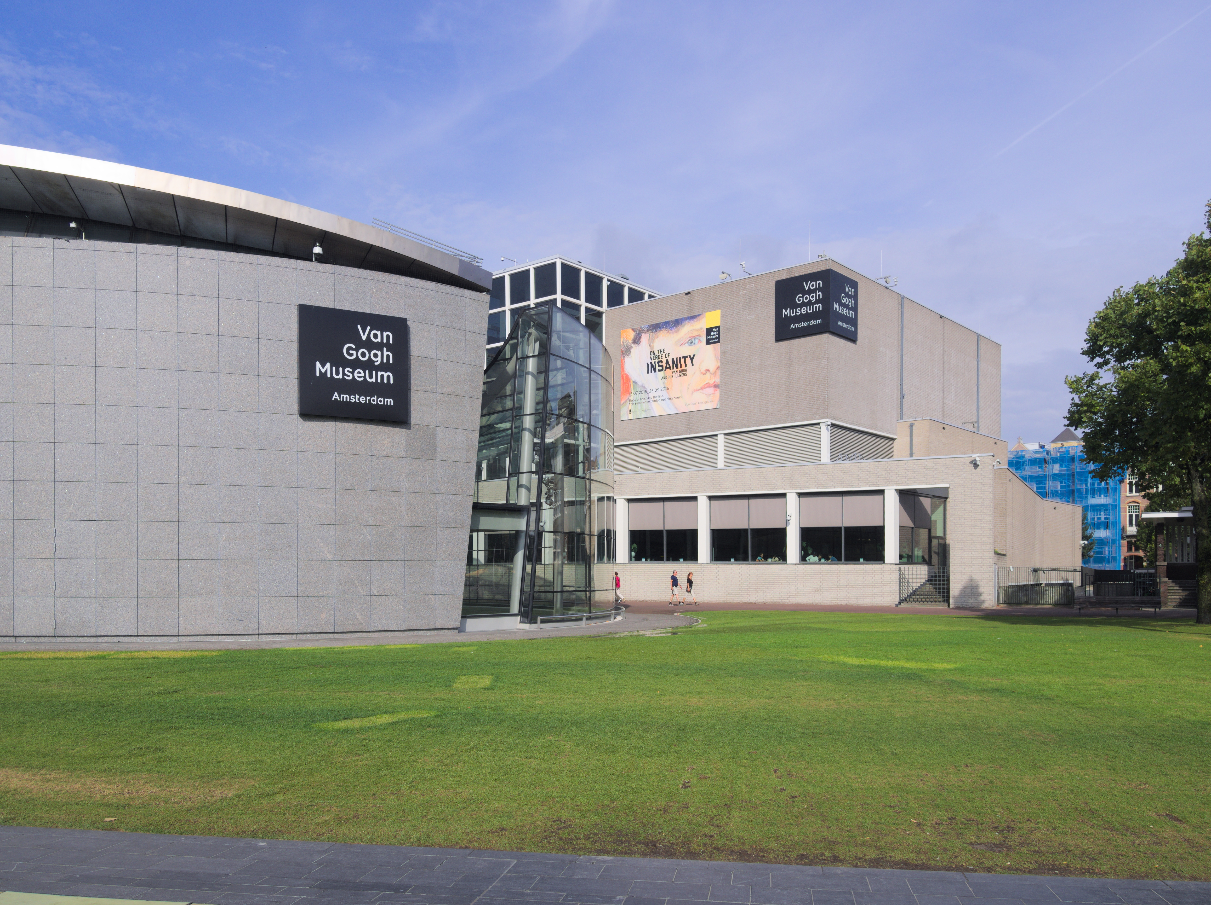 The exterior of Van Gogh Museum in September 2016.